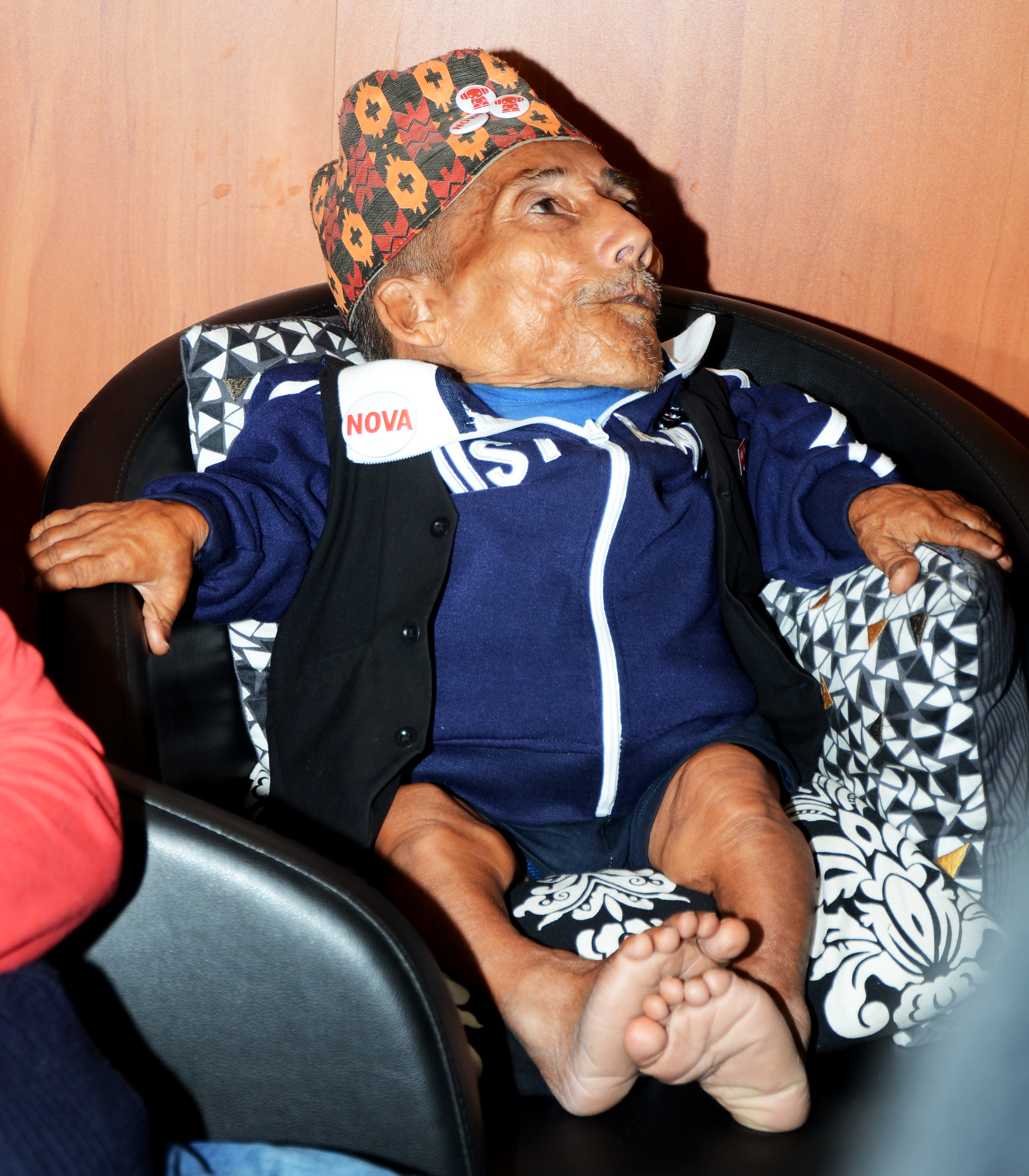 This is the photo of Chandra Bahadur Dangi of Nepal, the current World's shortest adult human and World's shortest living man recognized by Guinness World Records.